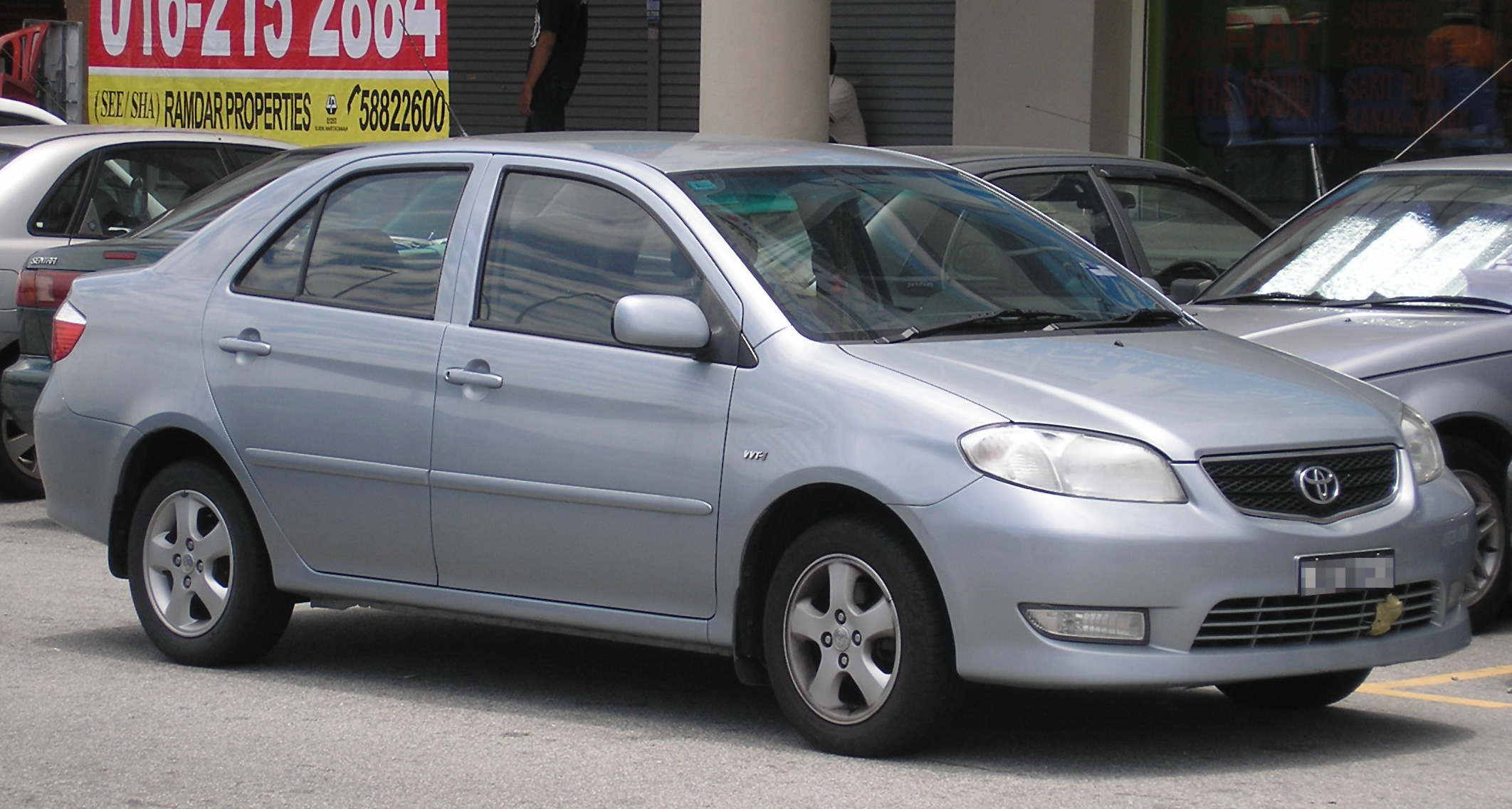 Front-side shot of a first generation Toyota Vios, in Serdang, Selangor, Malaysia.